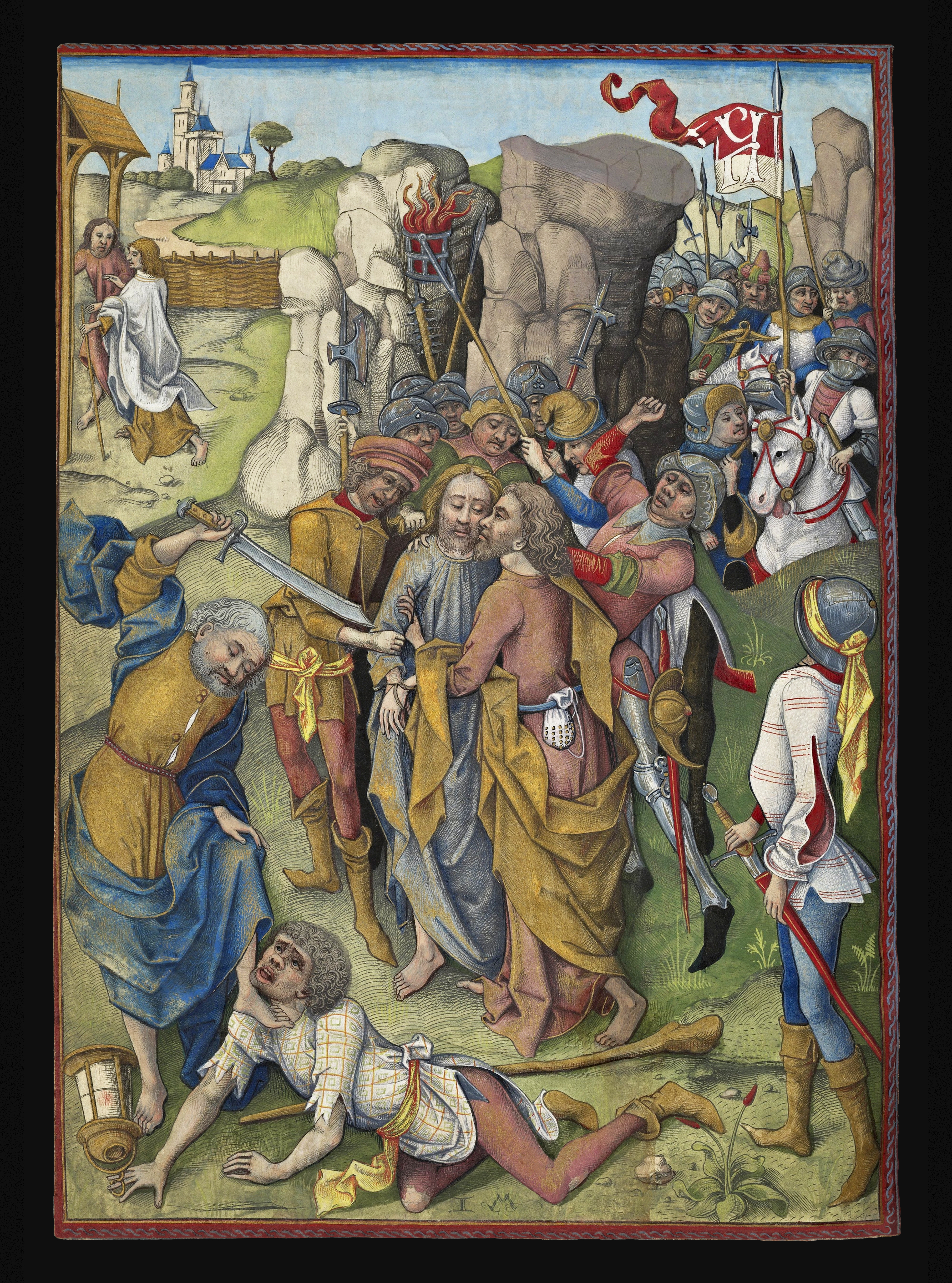 The kiss of Judas Iscariot, coloured engraving, from the Heures de Charles d'Angoulême, f. 357, (15th century)